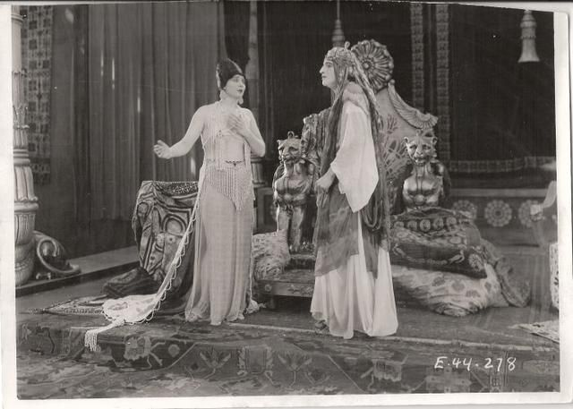 Vintage '21 Betty Blythe in Queen of Sheba Still Photo